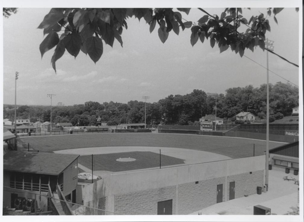 Calfee Park Pulaski, Virginia